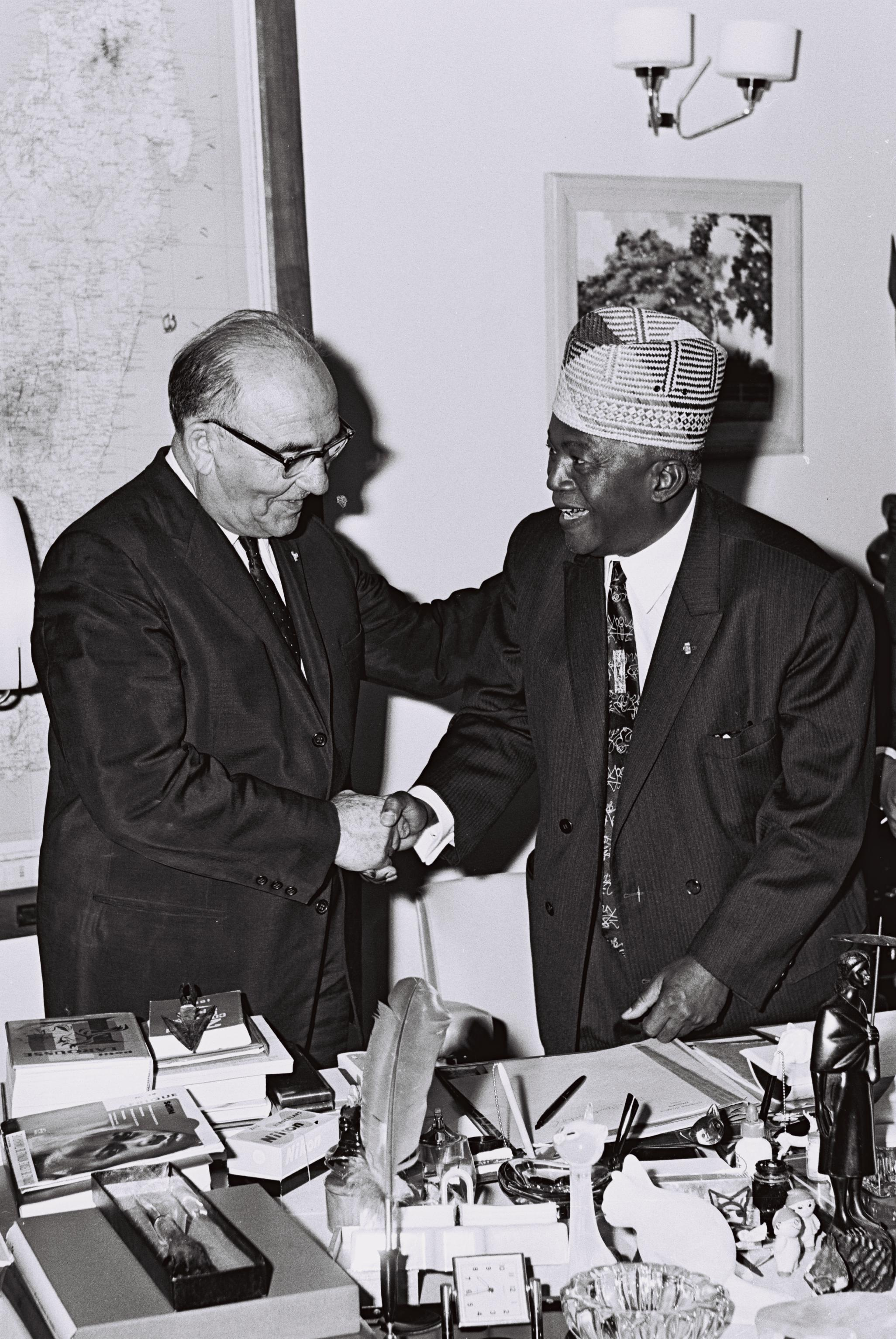 President of Madagascar Philibert Tsiranana and Prime Minister of Israel Levi Eshkol, June 11, '66.